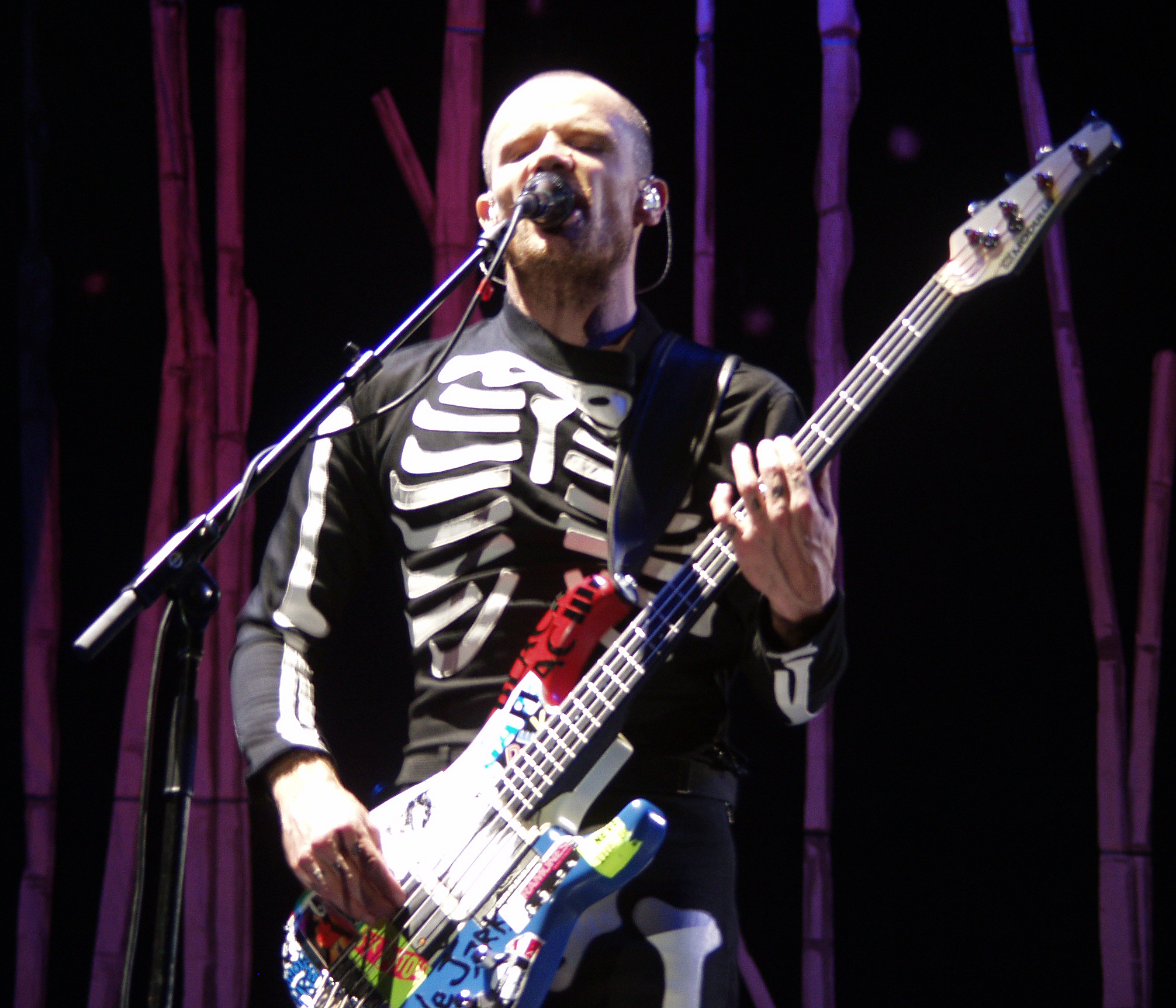 The musician Flea